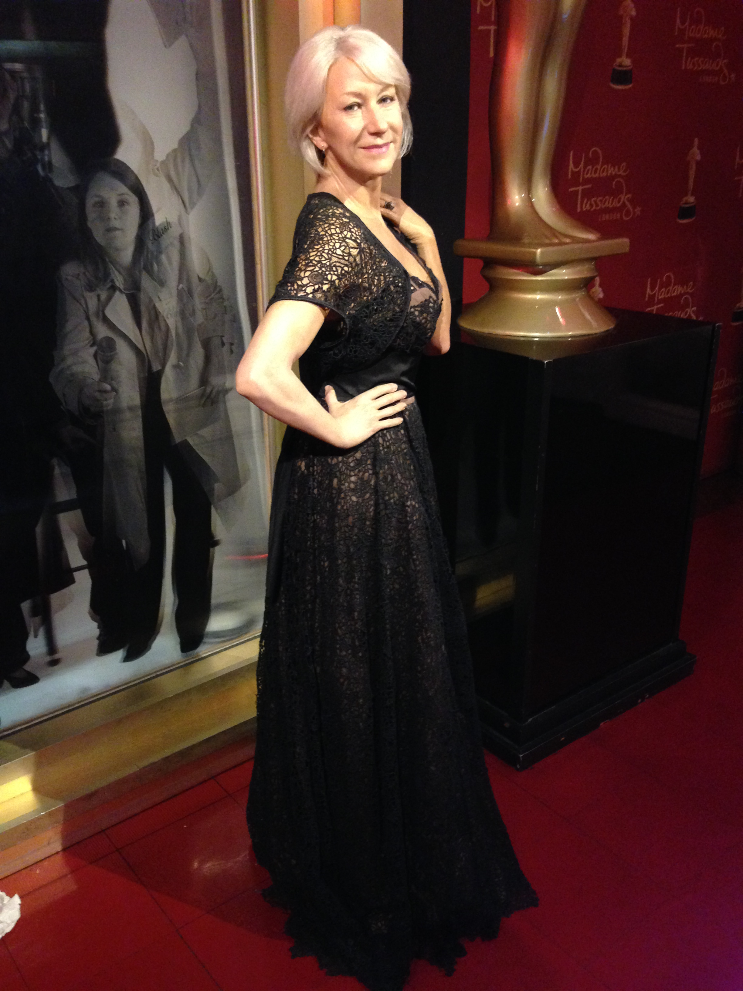 Helen Mirren at Madame Tussauds London - November 1st, 2016